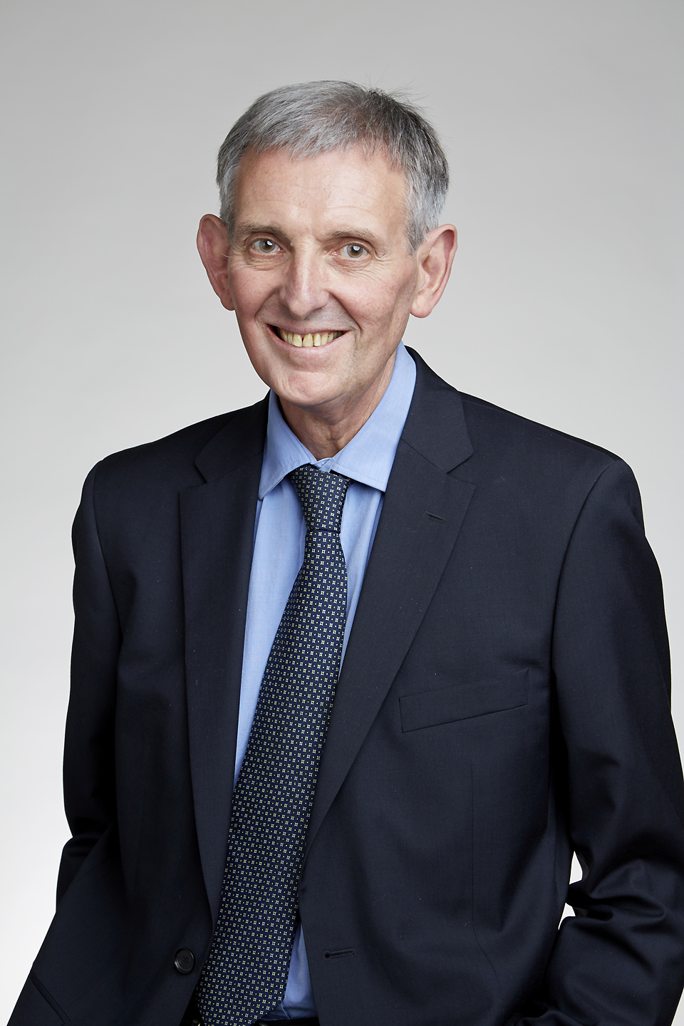 David) Alastair (Standish) Compston (born 23 January 1948)FRCP, FMedSci, FRS is Professor Emeritus of Neurology in the Department Of Clinical Neurosciences at the University of Cambridge and an Emeritus Fellow of Jesus College, Cambridge ((Royal Society